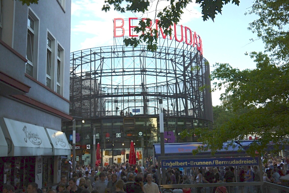 bermudadreieck bochum 2012